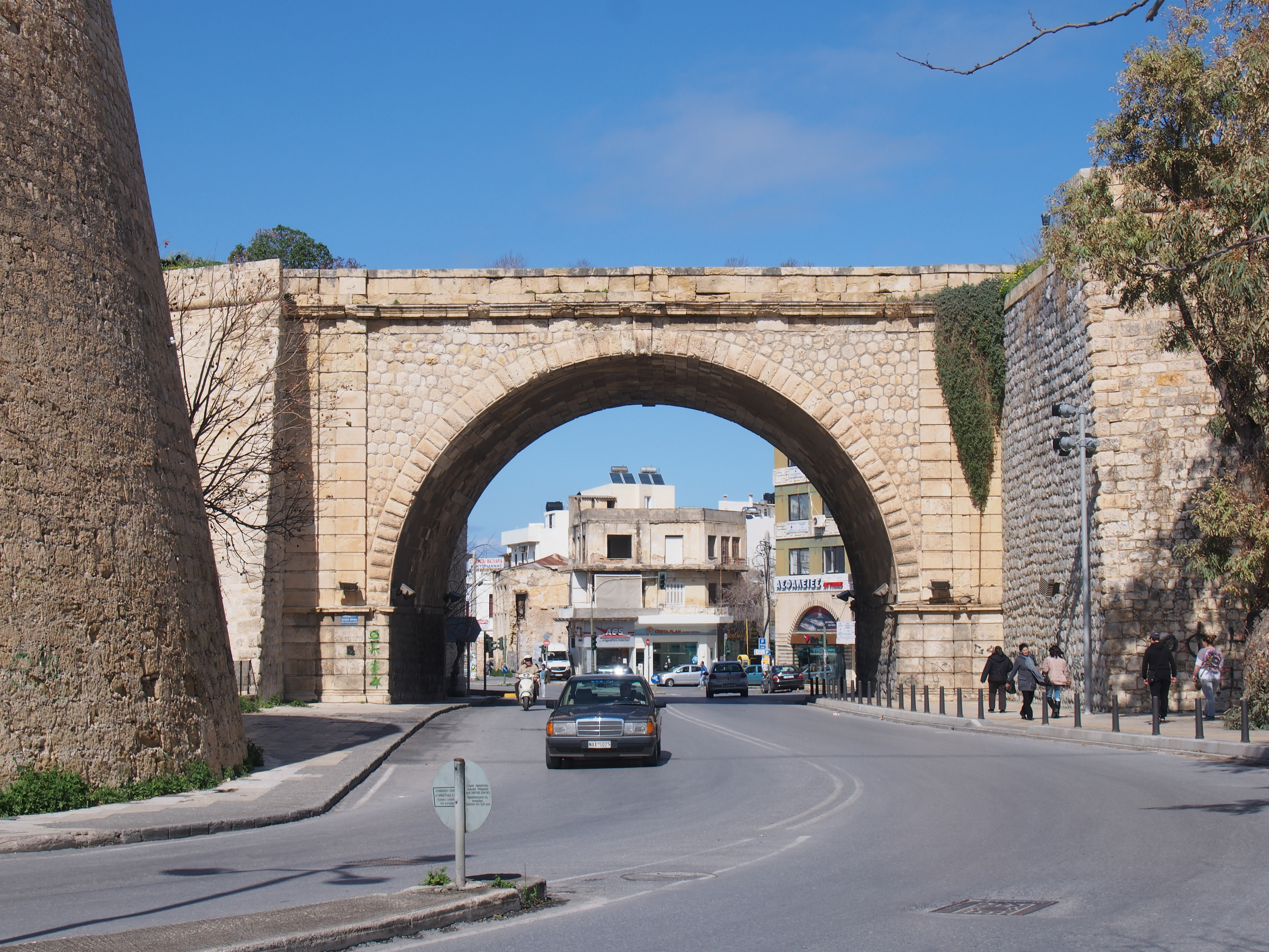 Chania Gate, constructed during the 1920s to allow roads to be constructed from the center of Heraklion out of the city walls. To the left is visible the Pantokrator Gate.